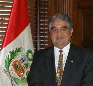 Foto Embajador Luis Valdivieso con Bandera Peruana